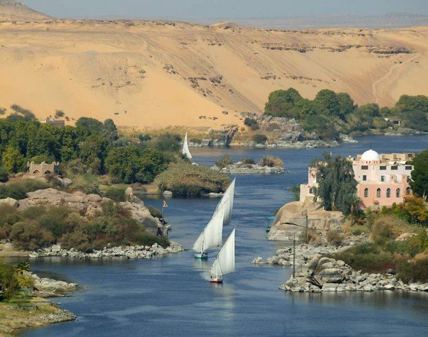 The Nile River in Egypt.